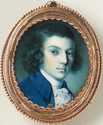 Portrait of John "Jacky" Parke Custis (1755-1781) by Charles Willson Peale, ca. 1774, watercolor-on-ivory, 6.4 × 5.1cm (2 1/2 × 2"), Mount Vernon Ladies' Association Catalog of American Portraits: W-2355 B